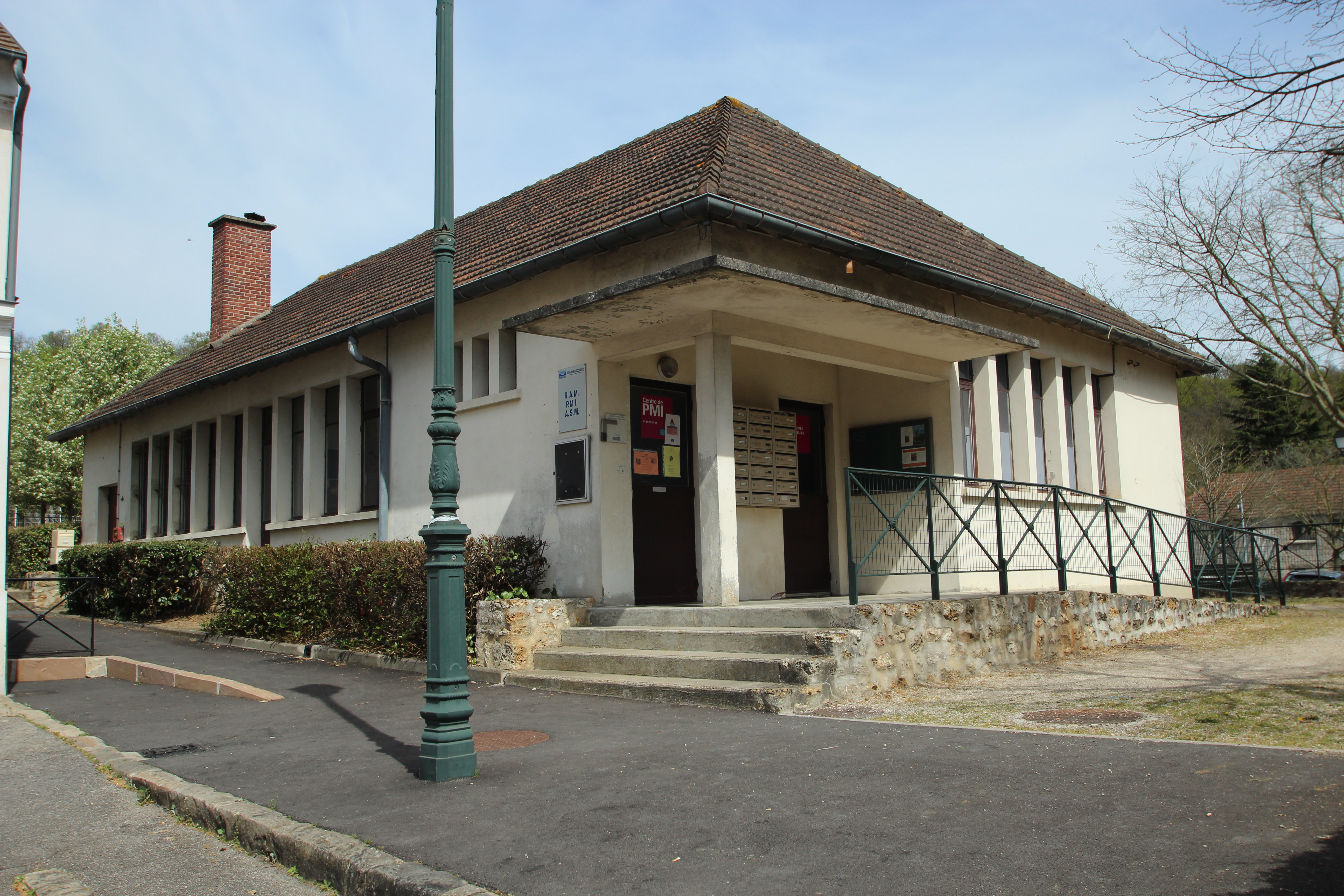 House of the Maternal and child welfare in Marcoussis, France.